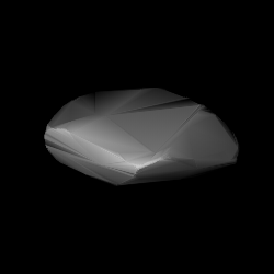 3D convex shape model of 1632 Sieböhme, computed using light curve inversion techniques. J. Hanuš, J. Ďurech, M. Brož, B. D. Warner (June 2011). "A study of asteroid pole-latitude distribution based on an extended set of shape models derived by the lightcurve inversion method". Astronomy and Astrophysics 530: A134. ISSN 0004-6361. arXiv